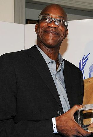 D. Wessfeldt hands over award to E. Moses